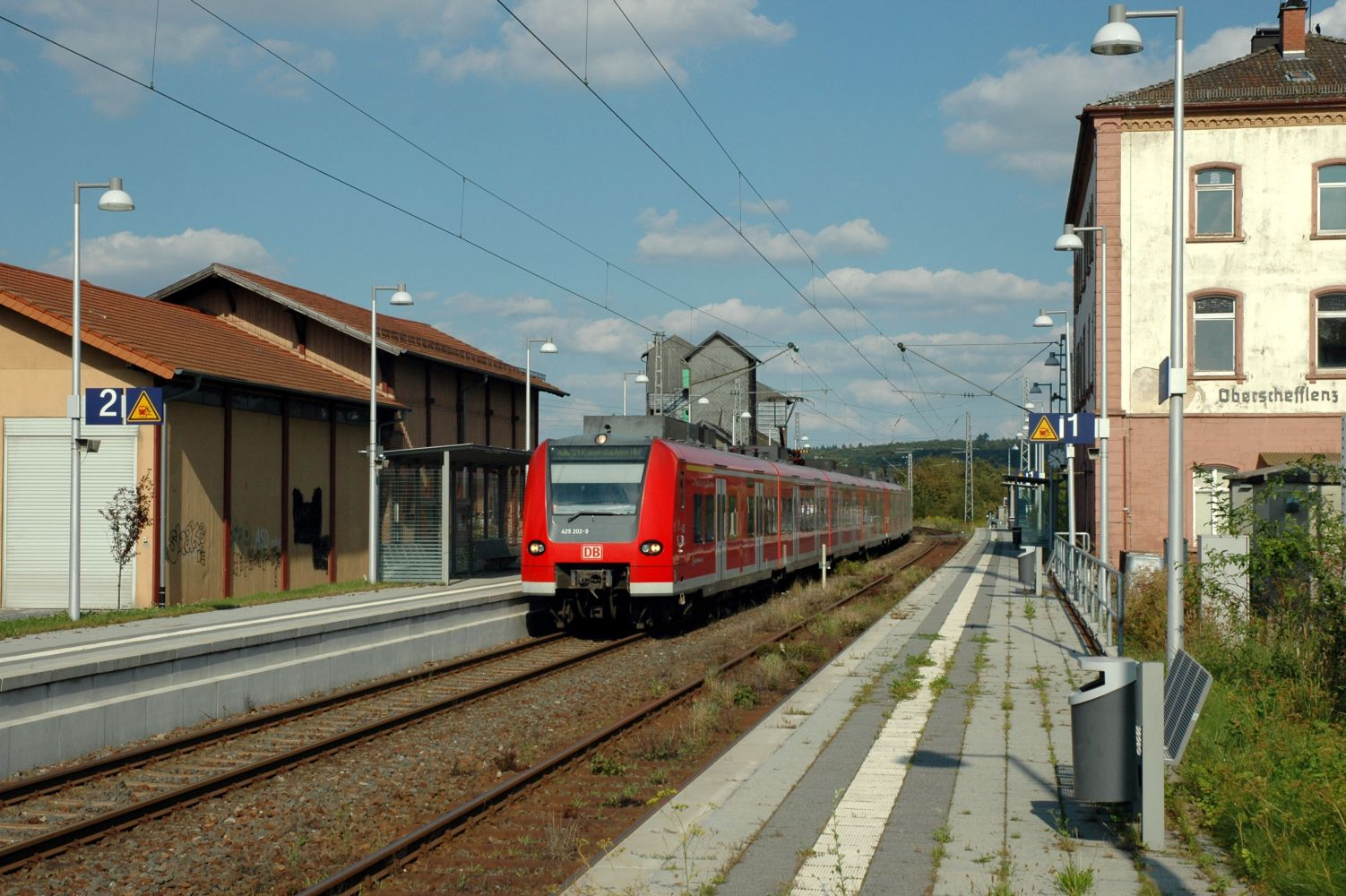 S-Bahn Rhein-Neckar train from Osterburken to Kaiserslautern approaching Oberschefflenz, train number RE 19959.